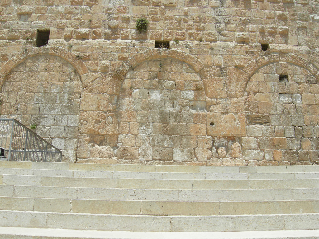 Al-Aqsa Mosque